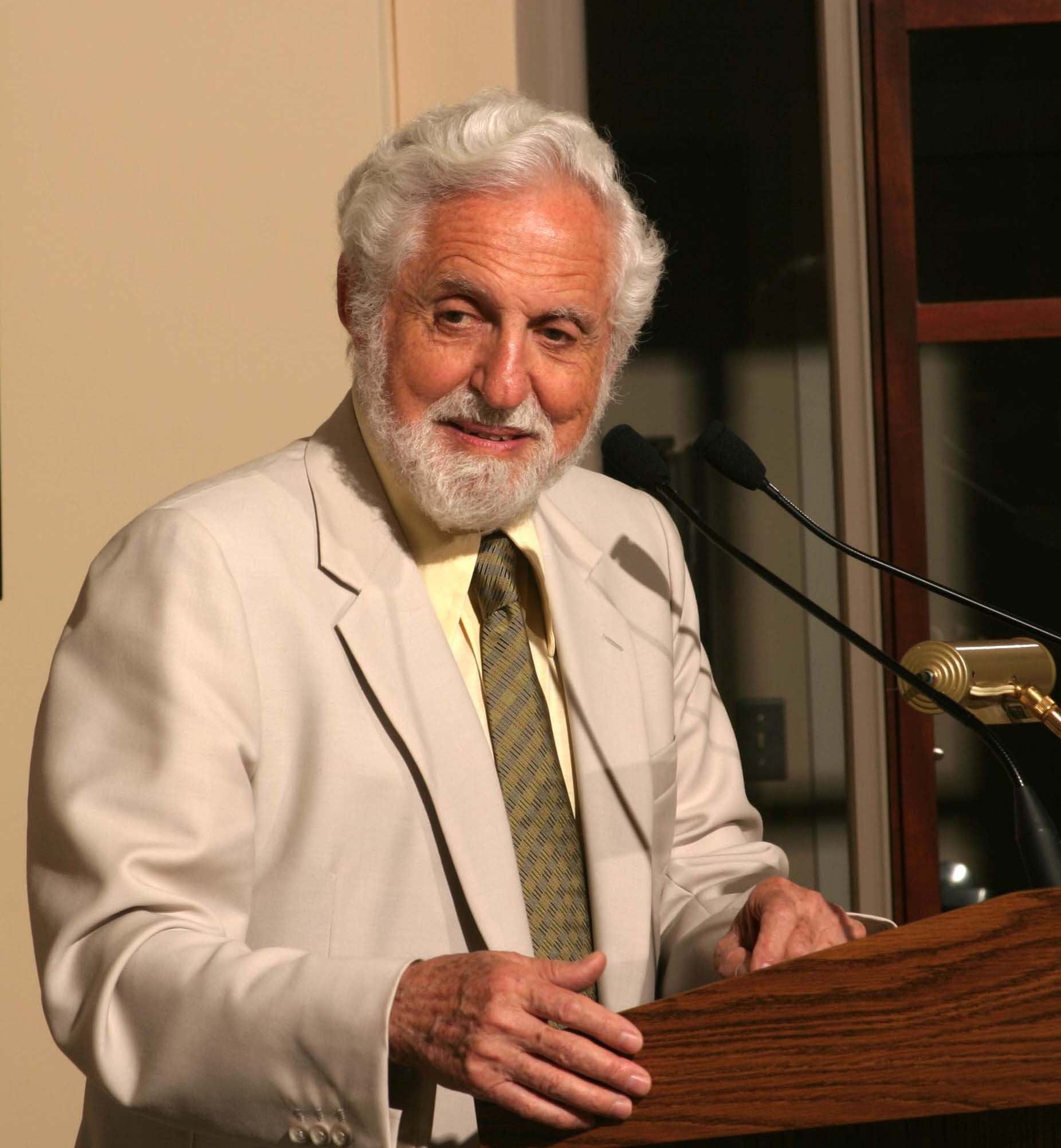 Photograph of Carl Djerassi, chemist and recipient of the 2004 AIC Gold Medal, at the podium, 17 June 2004, at Heritage Day, Chemical Heritage Foundation, Philadelphia, PA, USA.